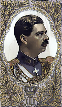 King Carol II of Romania on 1000 lei bill (issue 1934)